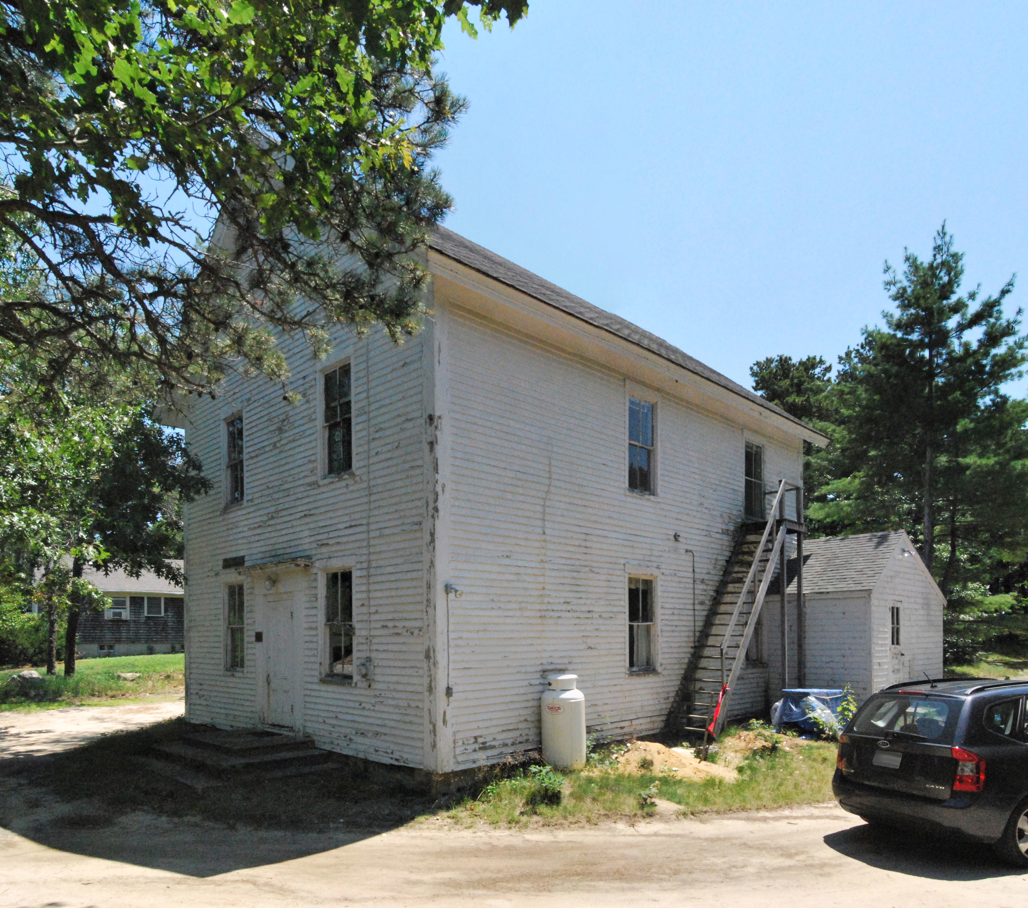 Pond Hill School in Wellfleet, Massachusetts, on the National Register of Historic Places in Barnstable County, Massachusetts